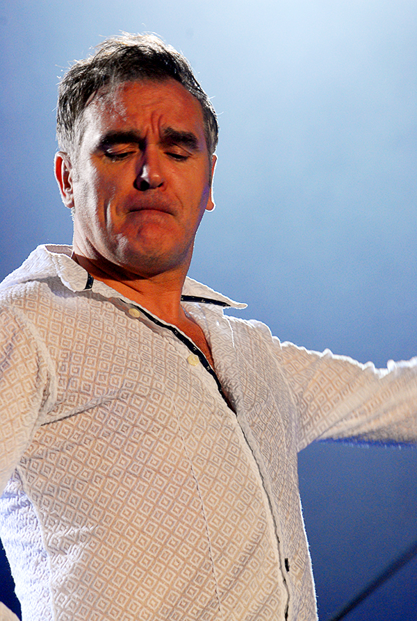 Morrissey performing at the Hop Farm Festival 2011